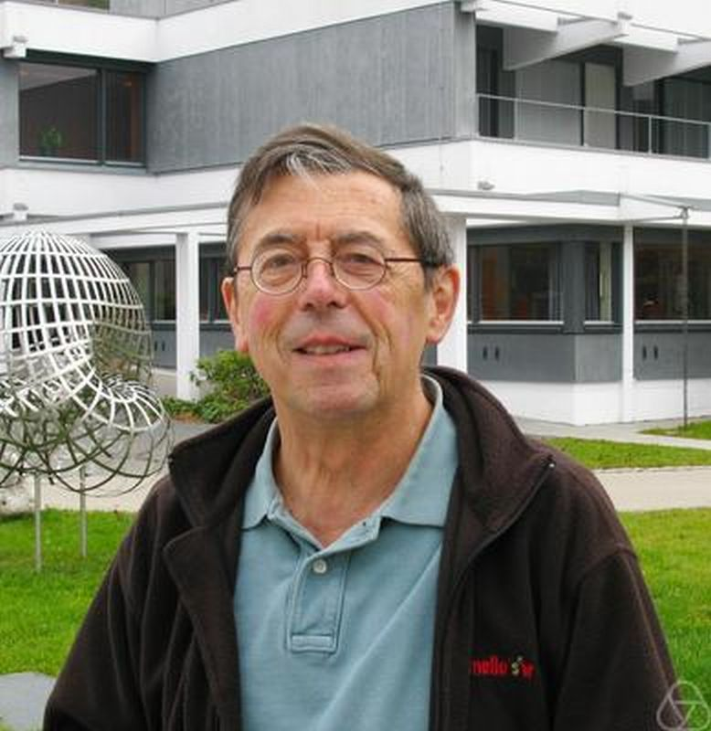 Laurence Wolsey, Oberwolfach 2011